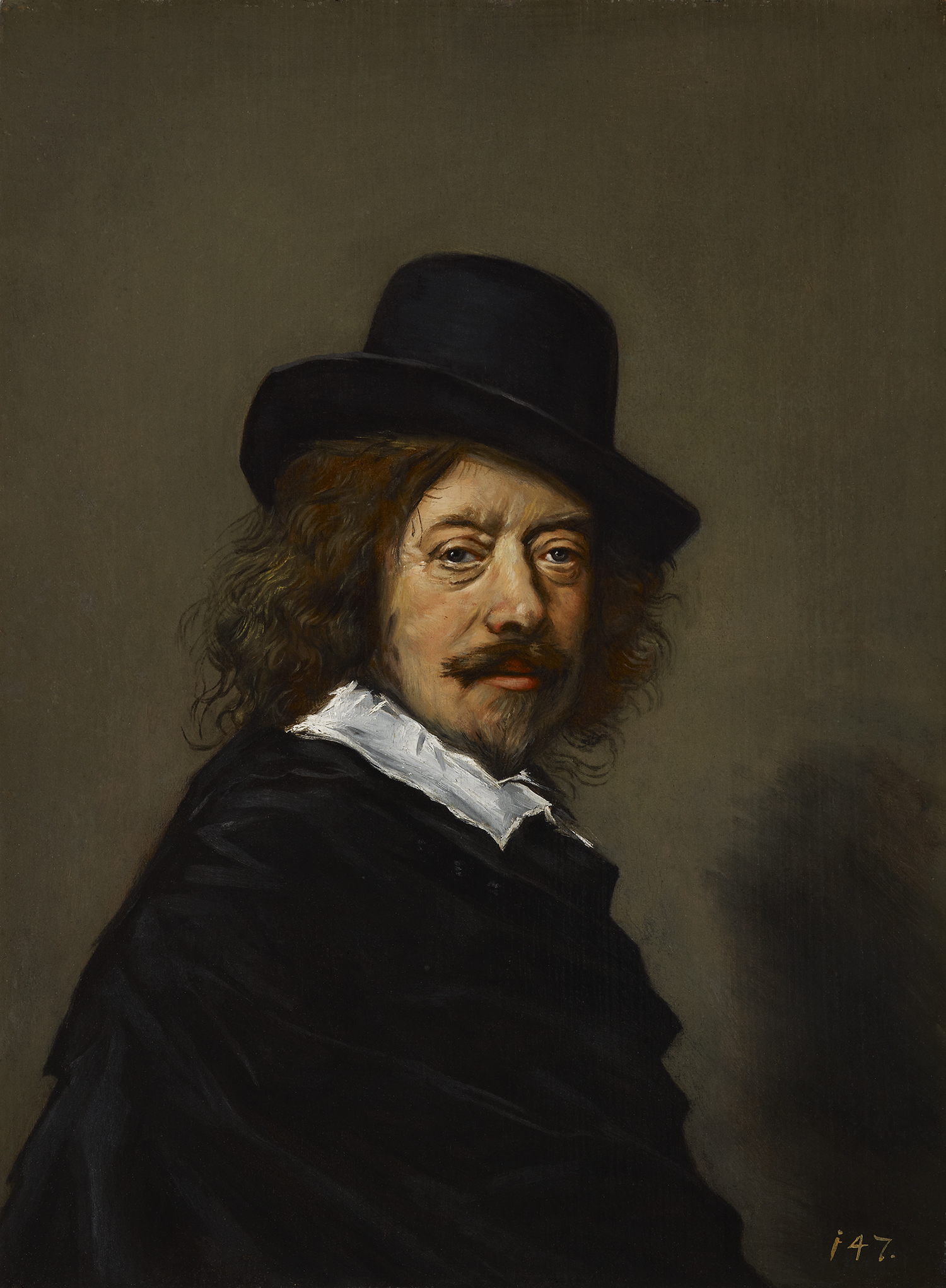 This painting was thought to be a self-portrait until 1935. A better copy of the fifteen copies of the lost Self-portrait is in the Indianapolis Museum of Art. The version in the MMA is less dark and the lips are slightly opened.